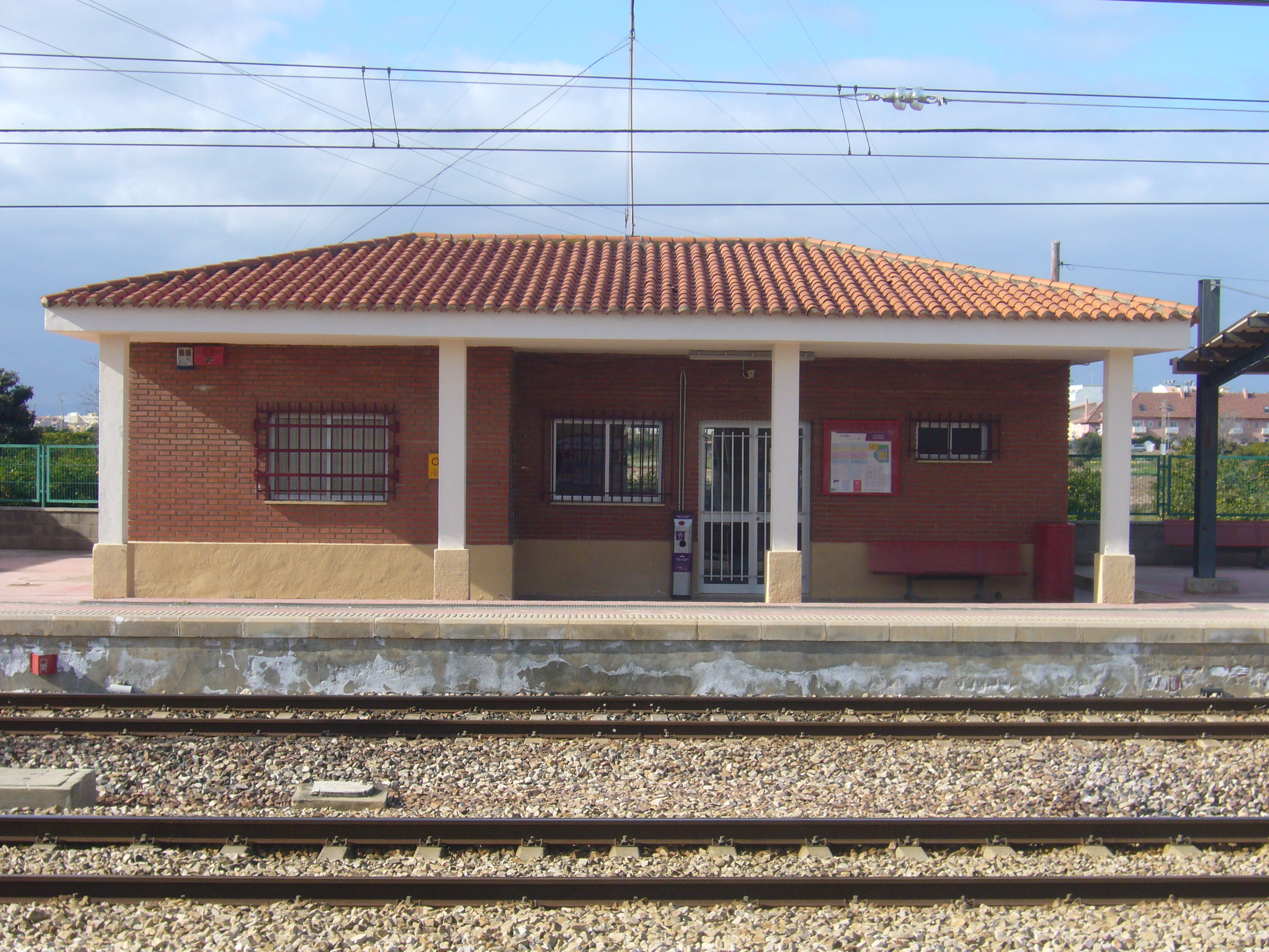 Massalfassar rail station, main buiding